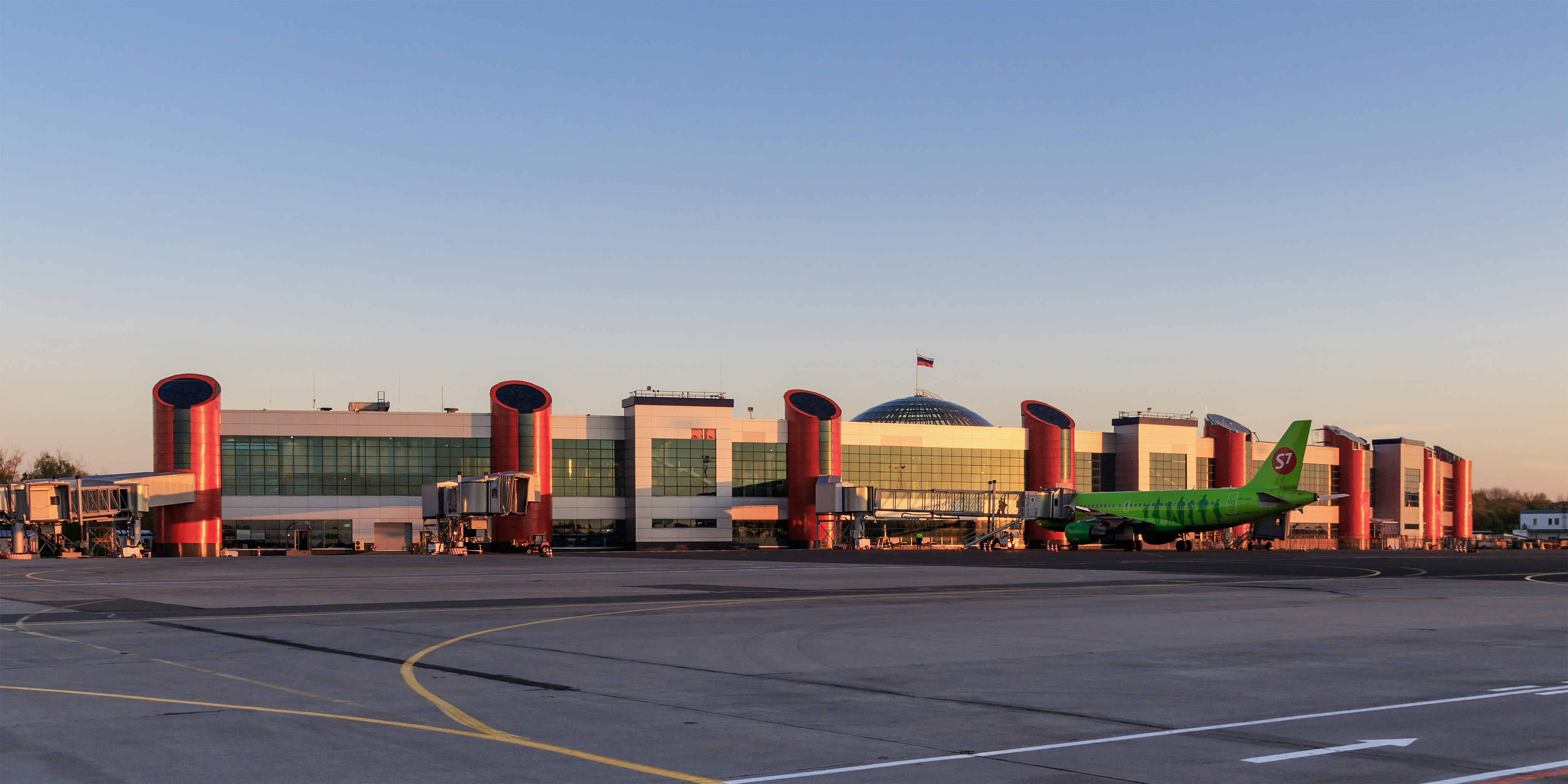 Terminal of Khrabrovo Airport of Kaliningrad formerly Königsberg, Kaliningrad Oblast (Russia).